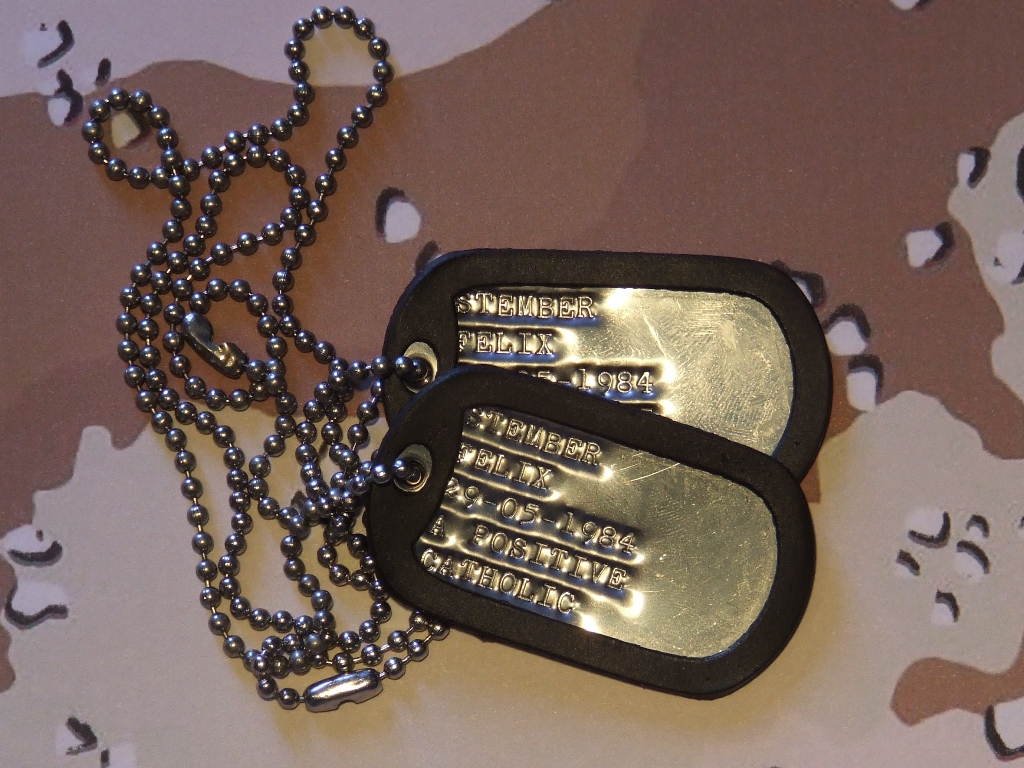 my "Dog Tag" on 6-Color-Desert-Camouflage-Pattern